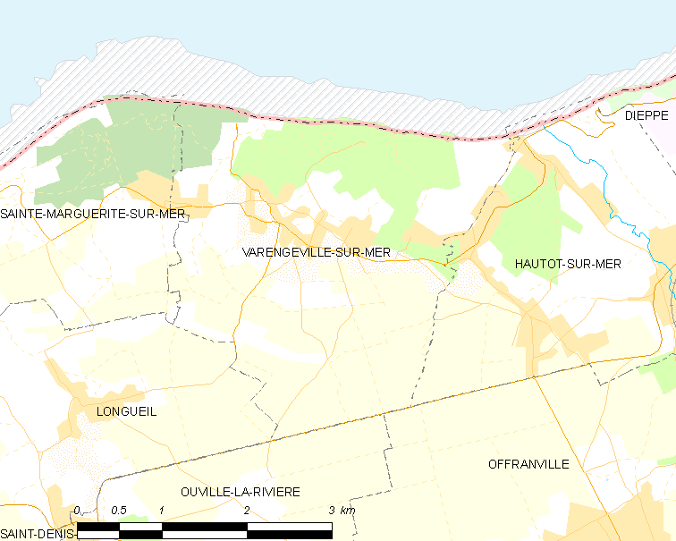 Map of French municipality Varengeville-sur-Mer